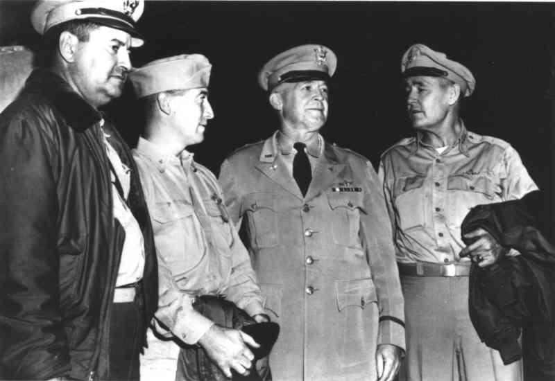 Left to Right: Maj. Gen. Curtis E. LeMay, Brig. Gen. Emmett O Donnell, Gen. Henry H. Arnold and Lt. Gen. Barney M. Giles, shown shotly after completion of the Boeing B-29's non-stop flight from Japan, September 19, 1945